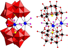 A diagram showing the structure of a polyoxometalate.